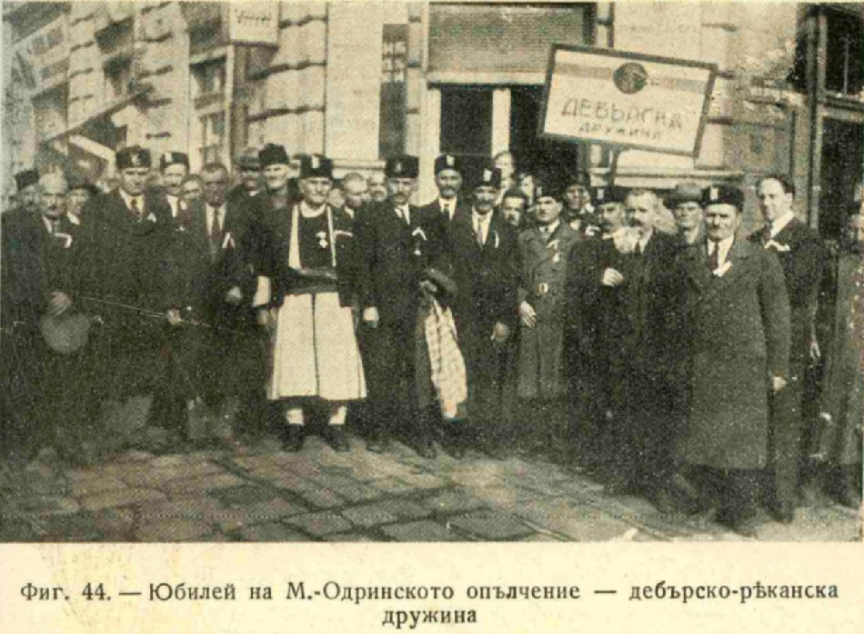 1 Debar Regiment Anniversary